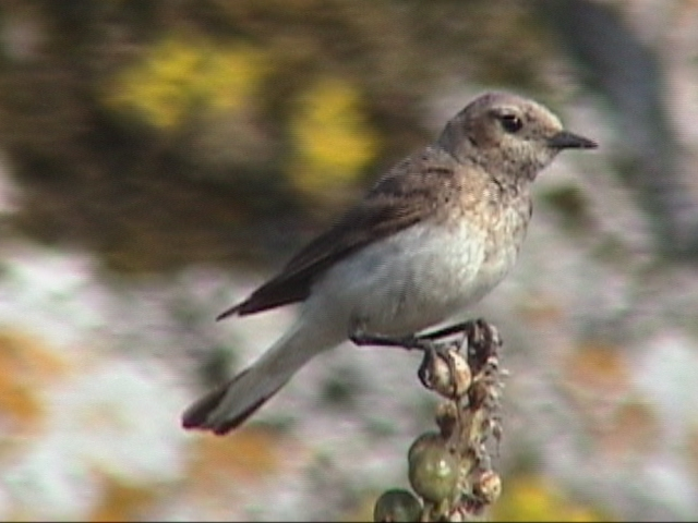 Oenanthe pleschanka, female Pied Wheatear Northern Wheatear, June 25, 2004, Kaliakra, Bulgaria, Ivan Petrov